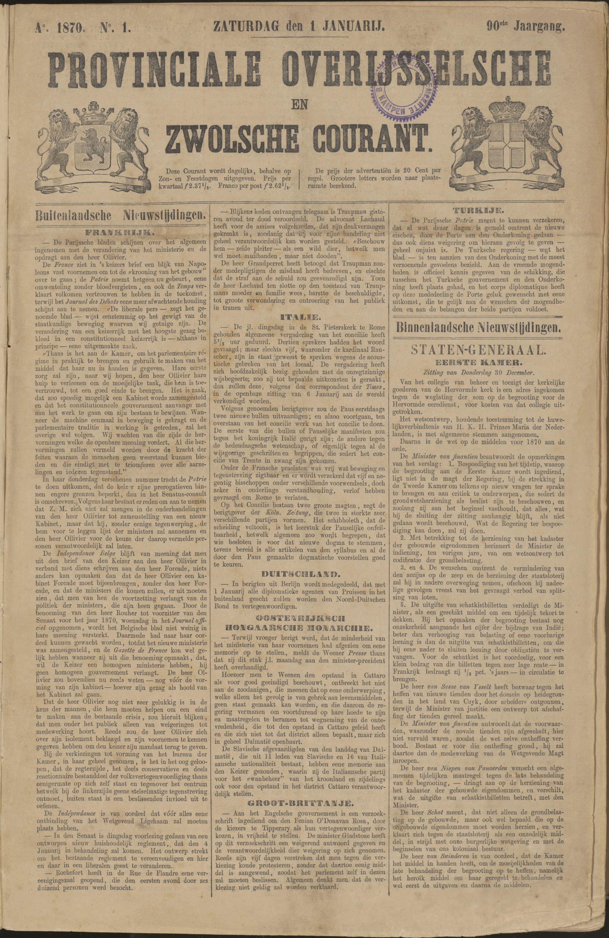 Cover page of the Provinciale Overijsselsche en Zwolsche courant, 01-01-1870